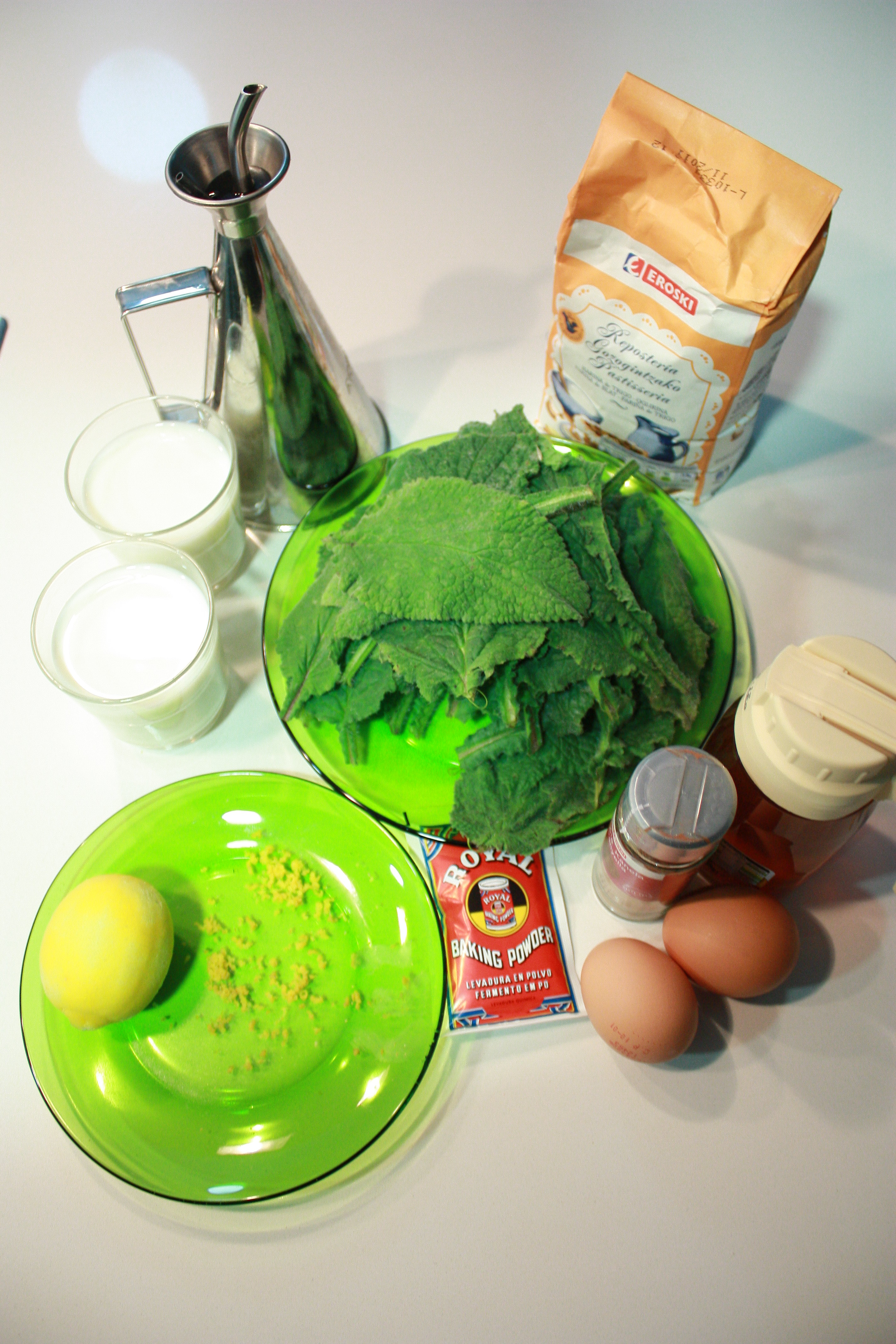 Ingredients per a les borraines